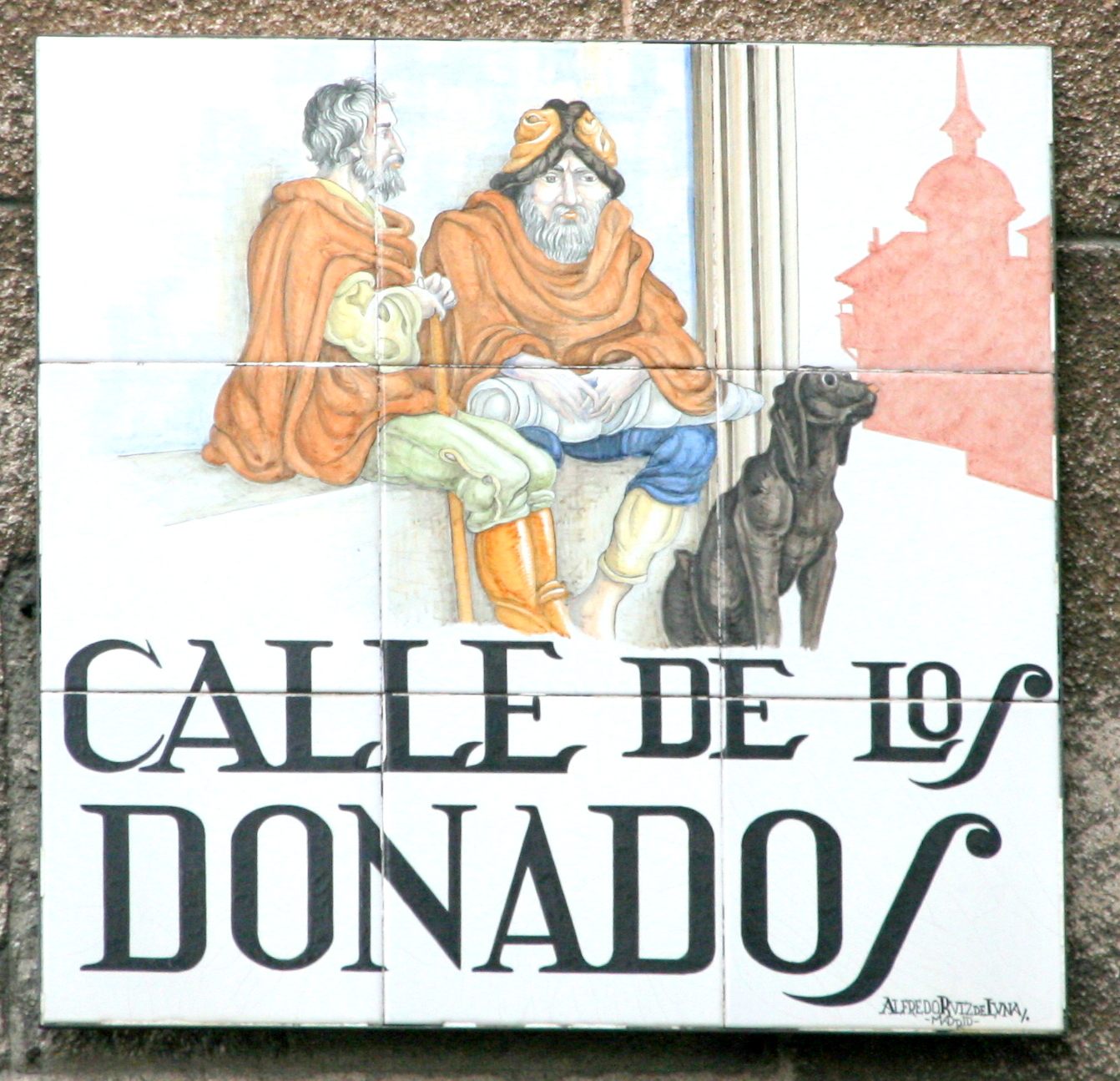 Placa de la calle de los Donaldos